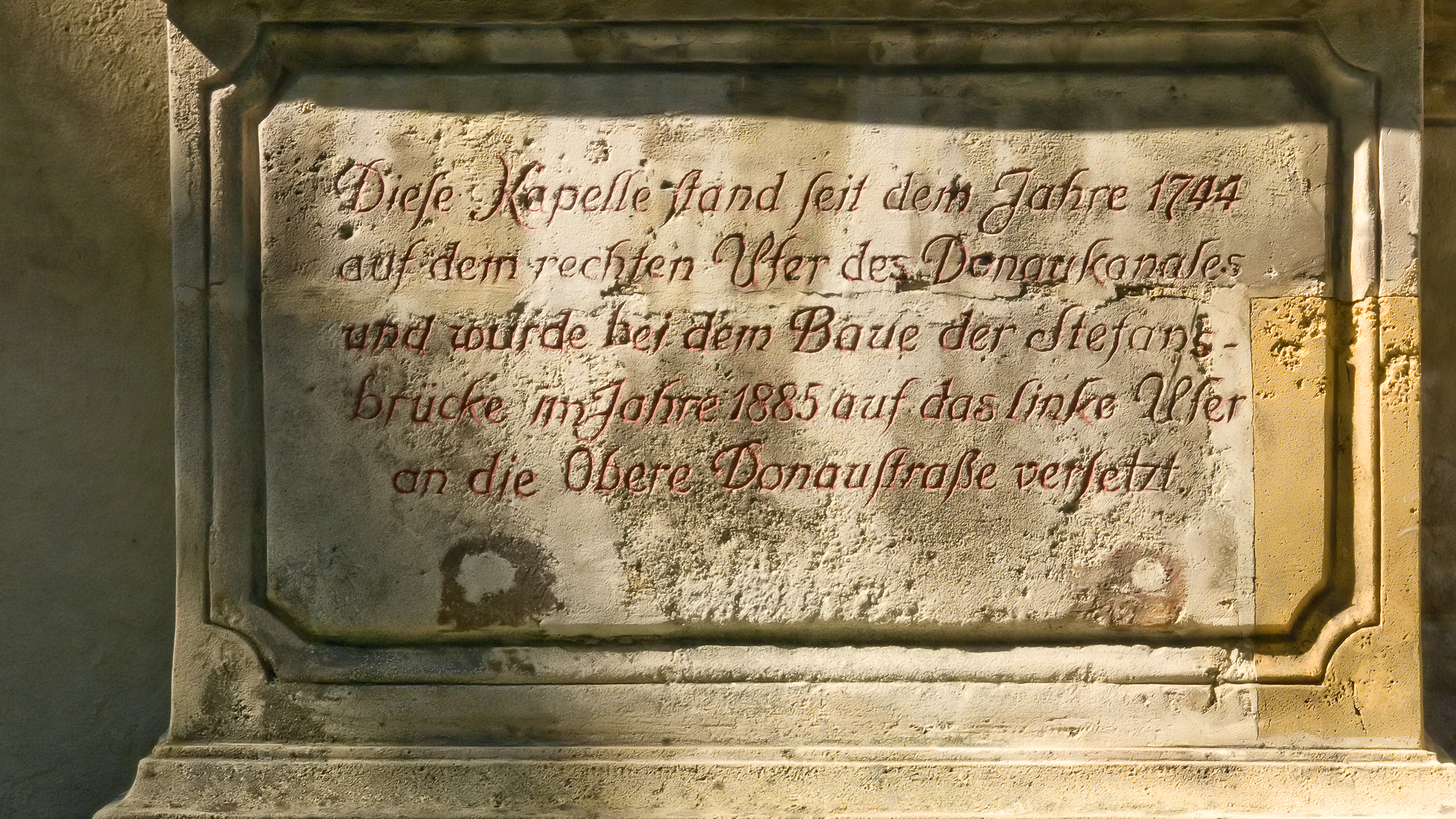 Public Park Wilhelm-Kienzl-Park in Vienna Leopoldstadt, Nepomuk chapel